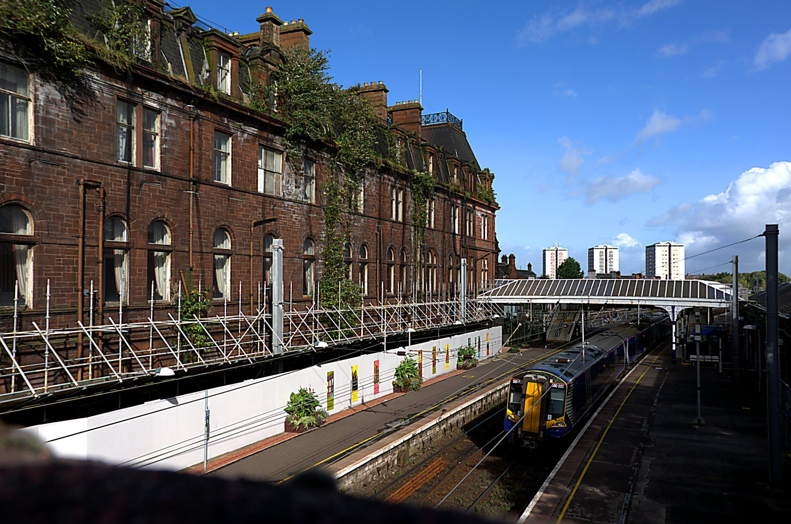 Ayr Station Hotel from railway side, currently derelict and becoming overgrown